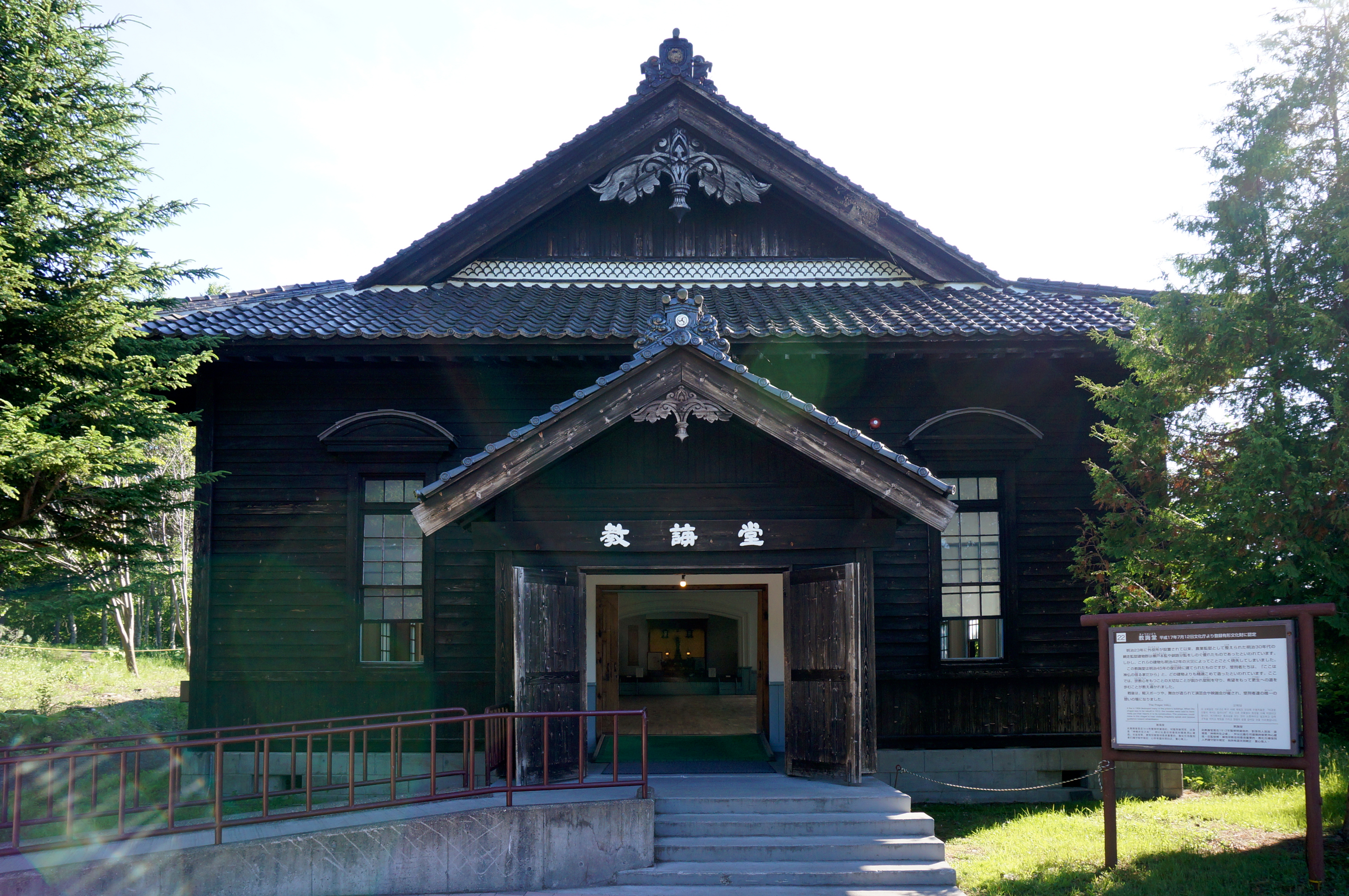 Abashiri Prison Museum in Abashiri, Hokkaido, Japan.